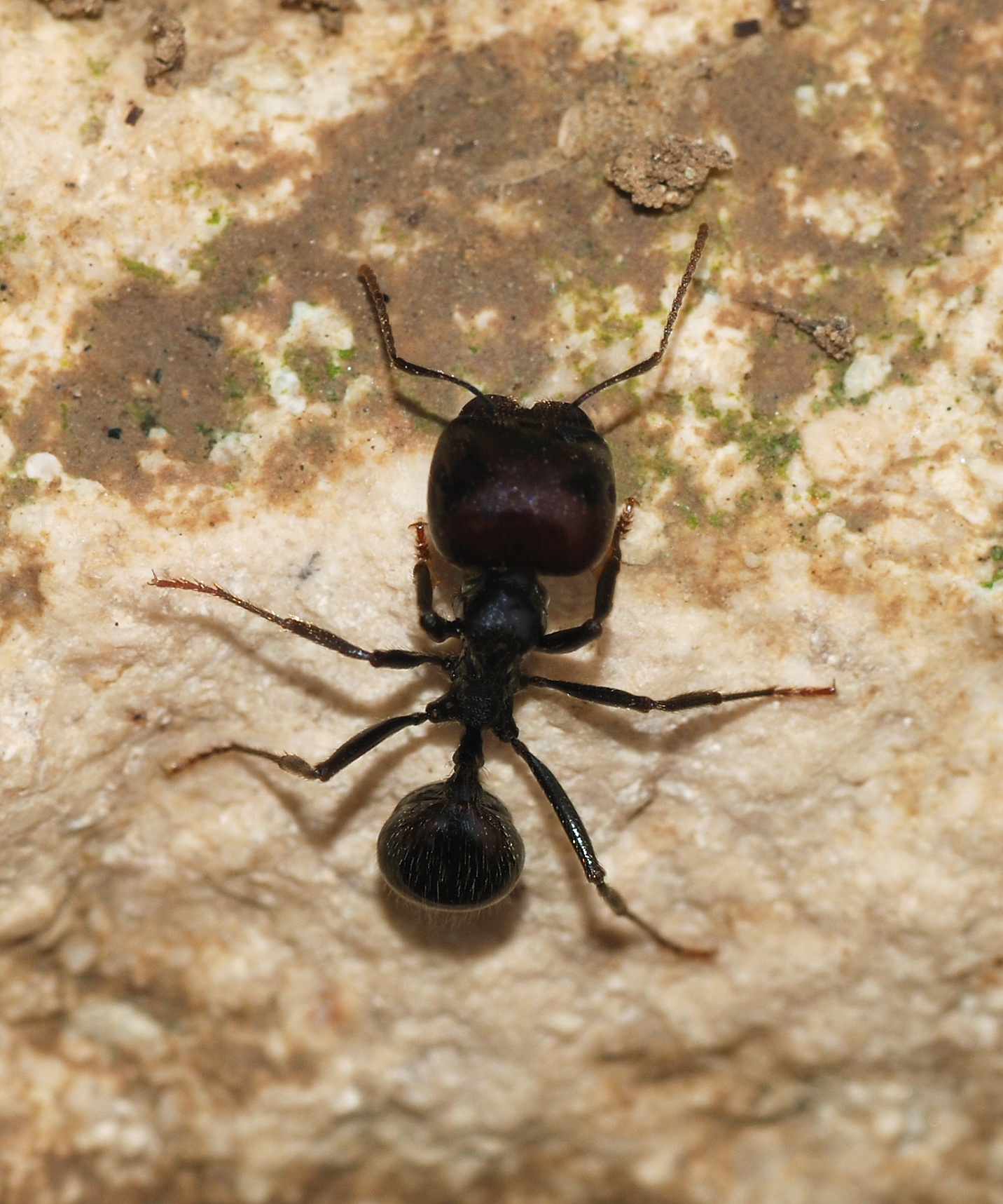 A large head worker ant, possibly Messor barbarus